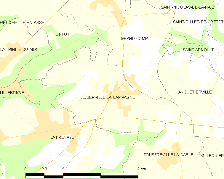 Map of French municipality Auberville-la-Campagne